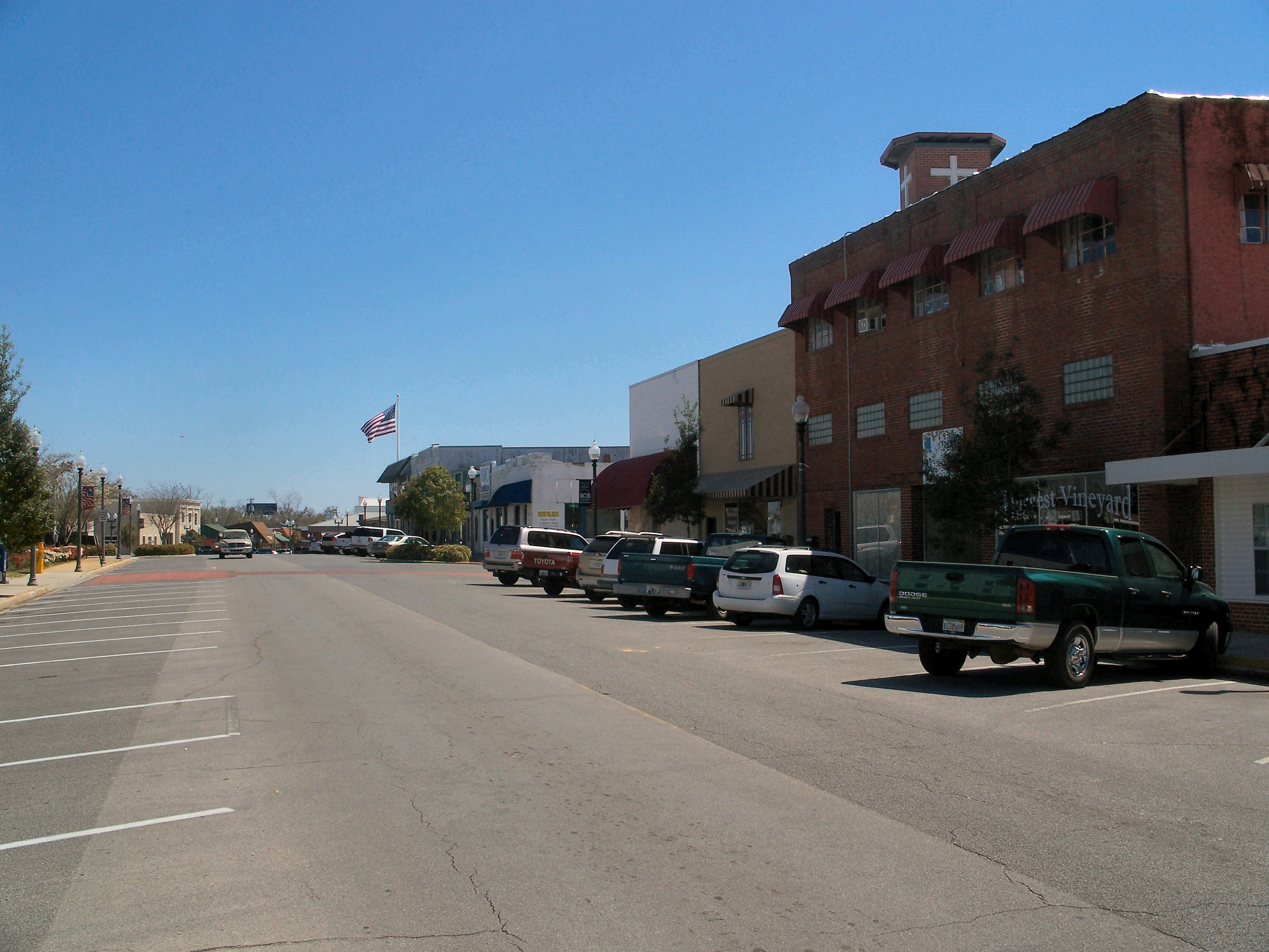 Crestview, Florida: Part of the Crestview Commercial Historic District.